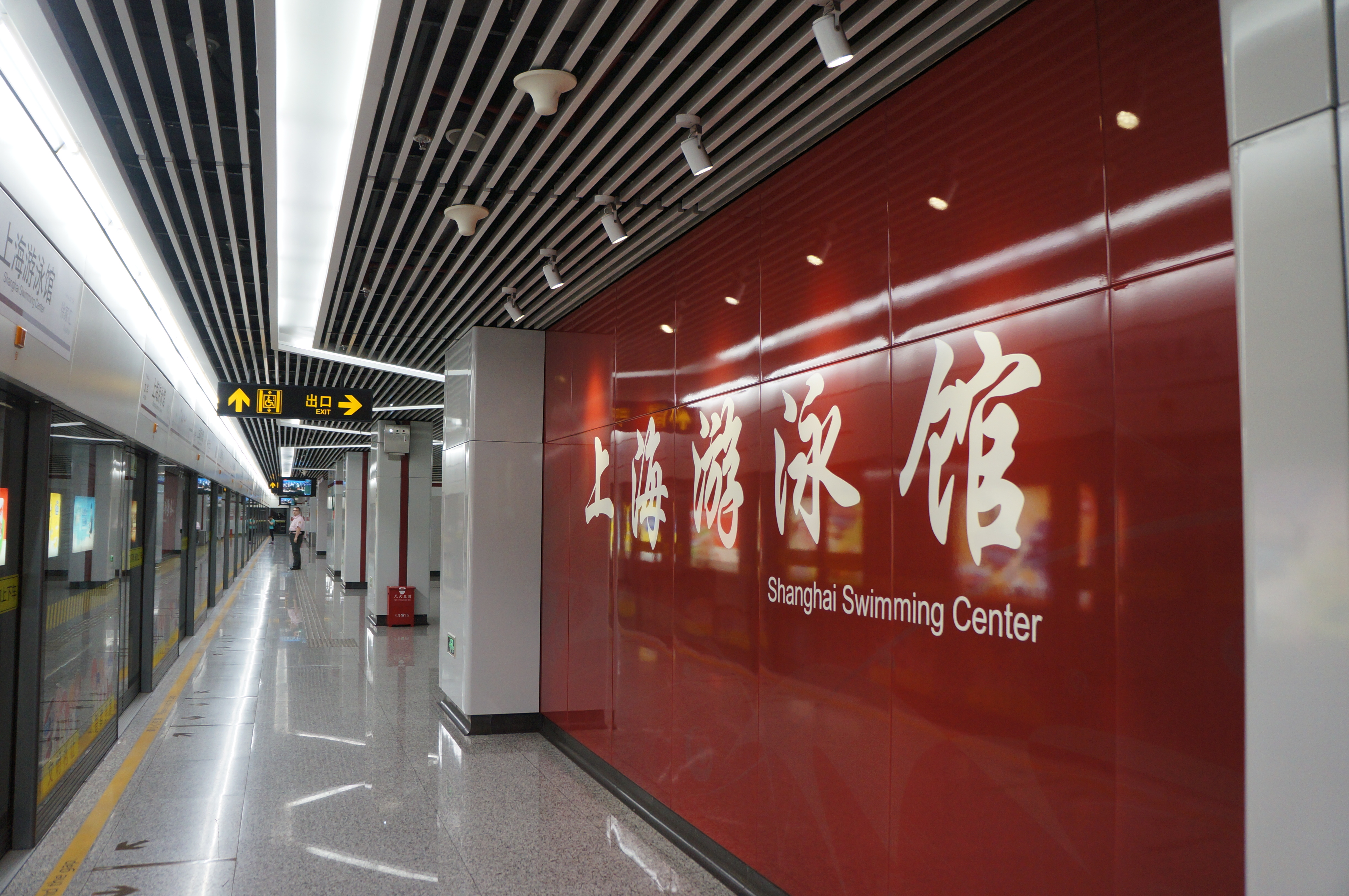 201609 Nameboard of Shanghai Swimming Center Station